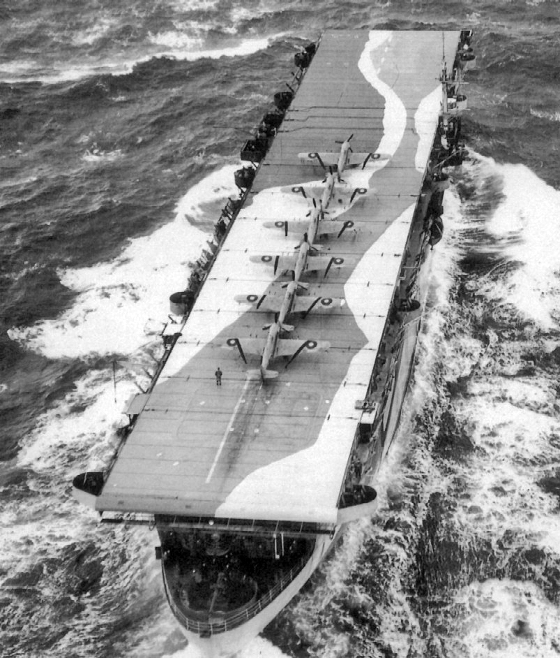 HMS Avenger (D14) (ex-mercantile Rio Hudson) underway in rough seas, date and location unknown. Note the unusual camouflage scheme on her flight deck. Six Sea Hurricane IIC fighters are lined-up on the centre line.